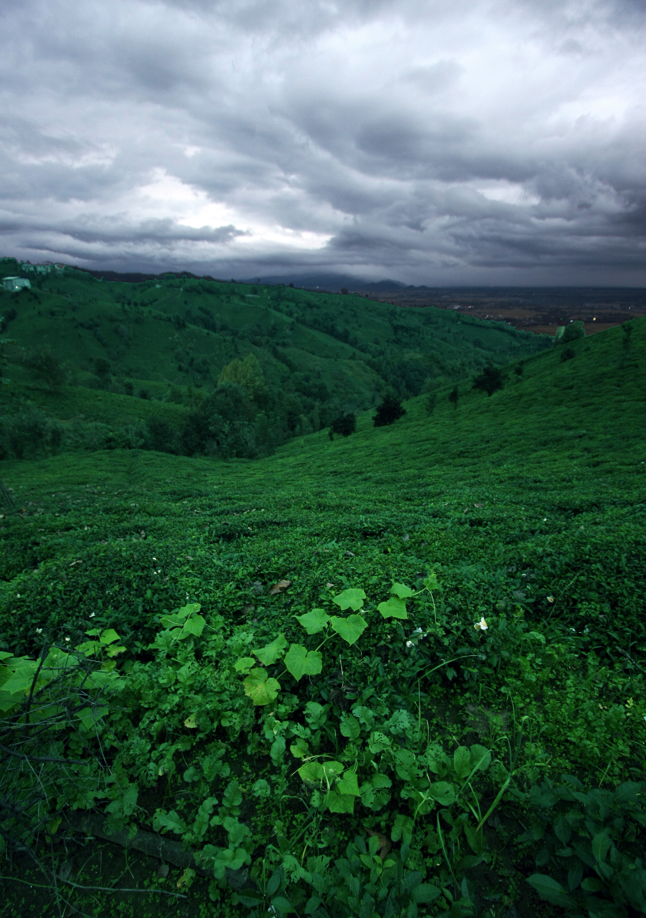 Iran - Gilan Province by Caspian Sea. Haloosara - village close to Rudsar.